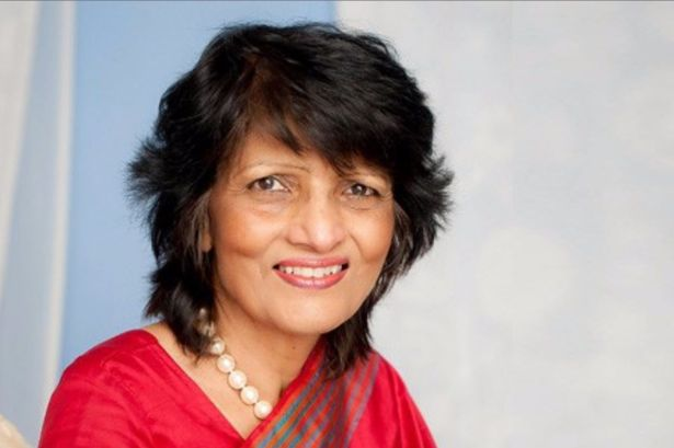 Meena's picture